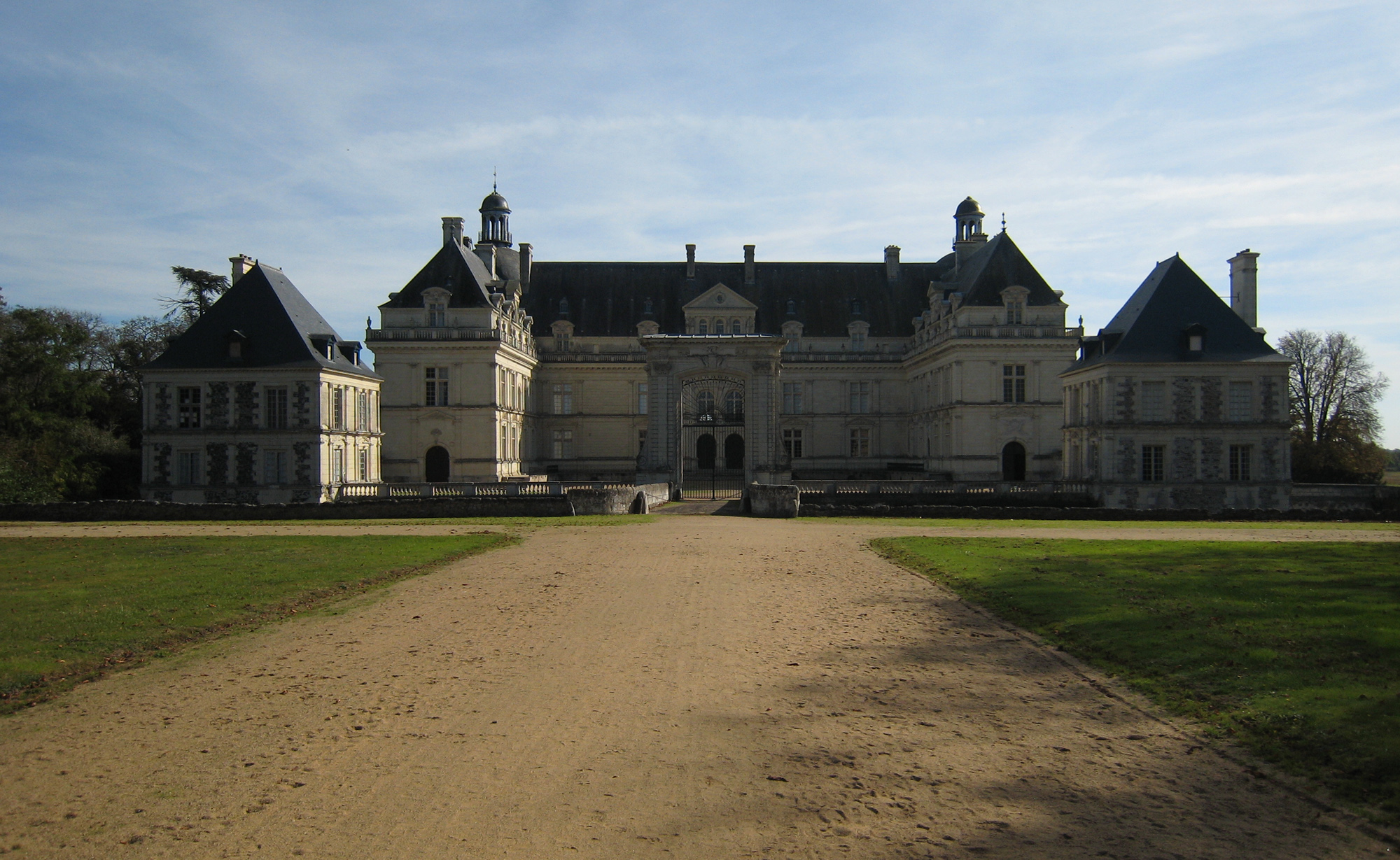 Castle Serrant, located near the village of Saint-Georges-sur-Loire, 15 km west of the town of Angers, in the county of Maine-et-Loire/France